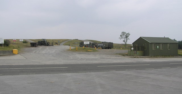 MOD Training Area. Entrance at Hartleap Well to Barden Fell & Hipswell Moor, Military Training Area & rifle ranges.